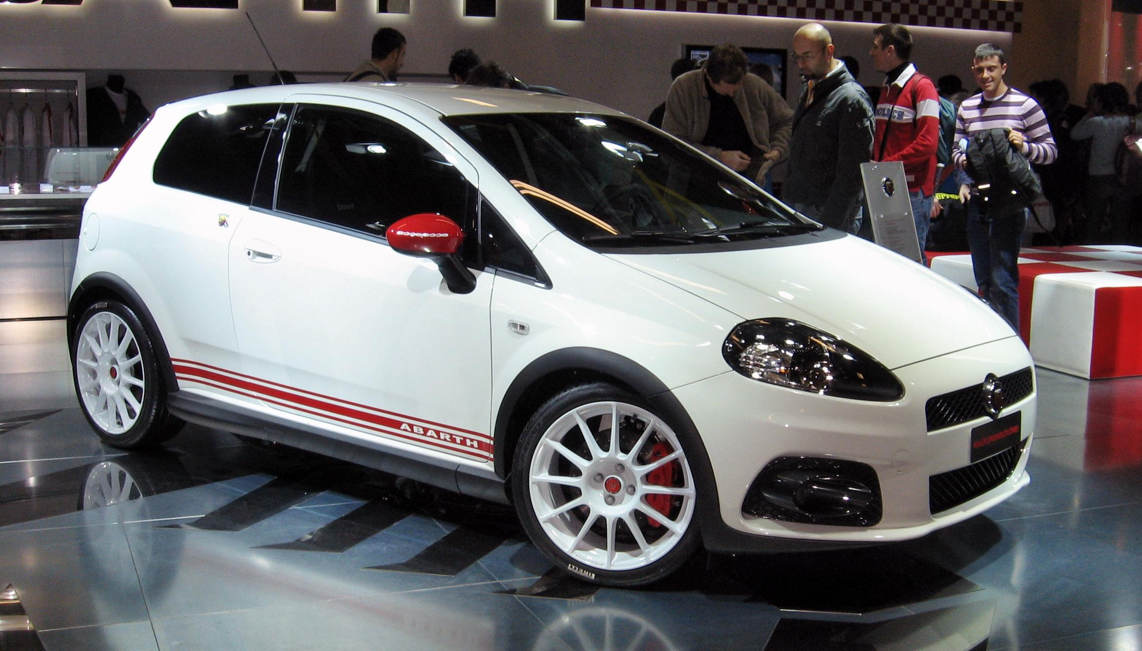 Subject:Abarth Grande Punto "esseesse" Author:Luc106 Date:December 13th, 2007 Event:Motor Show Bologna 2007 Place/Country: Bologna, Italy I release all rights in the public domain.